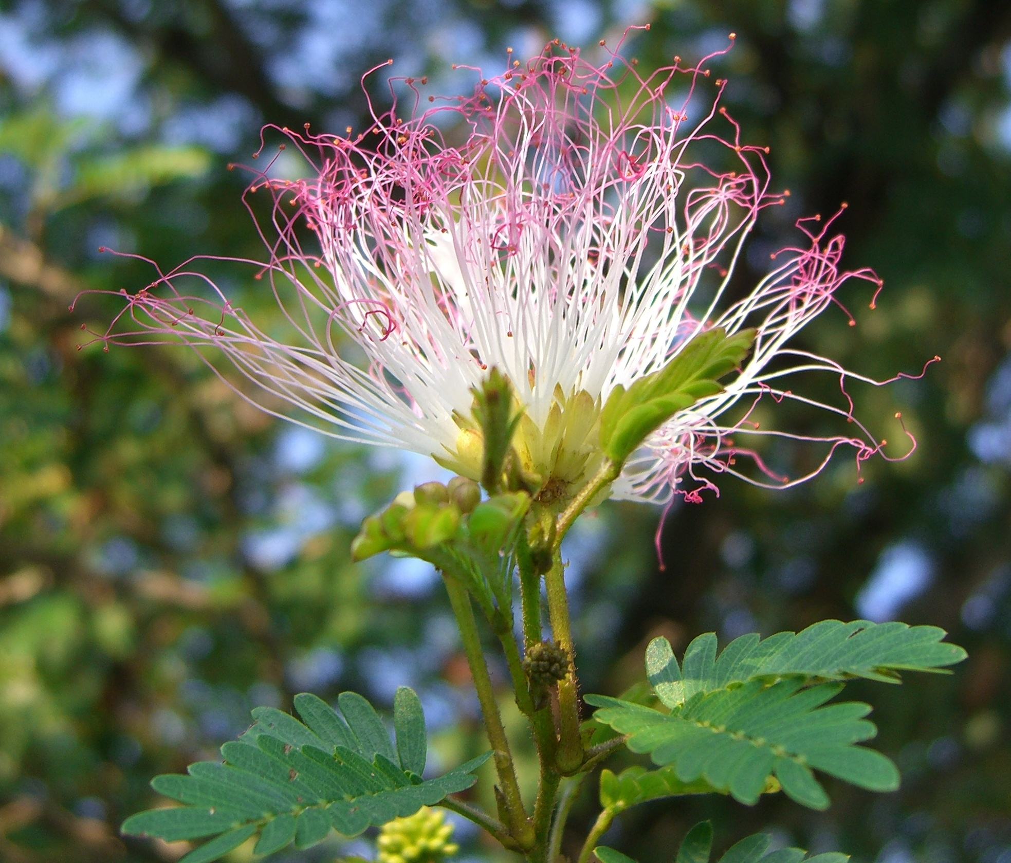 Please report references to .